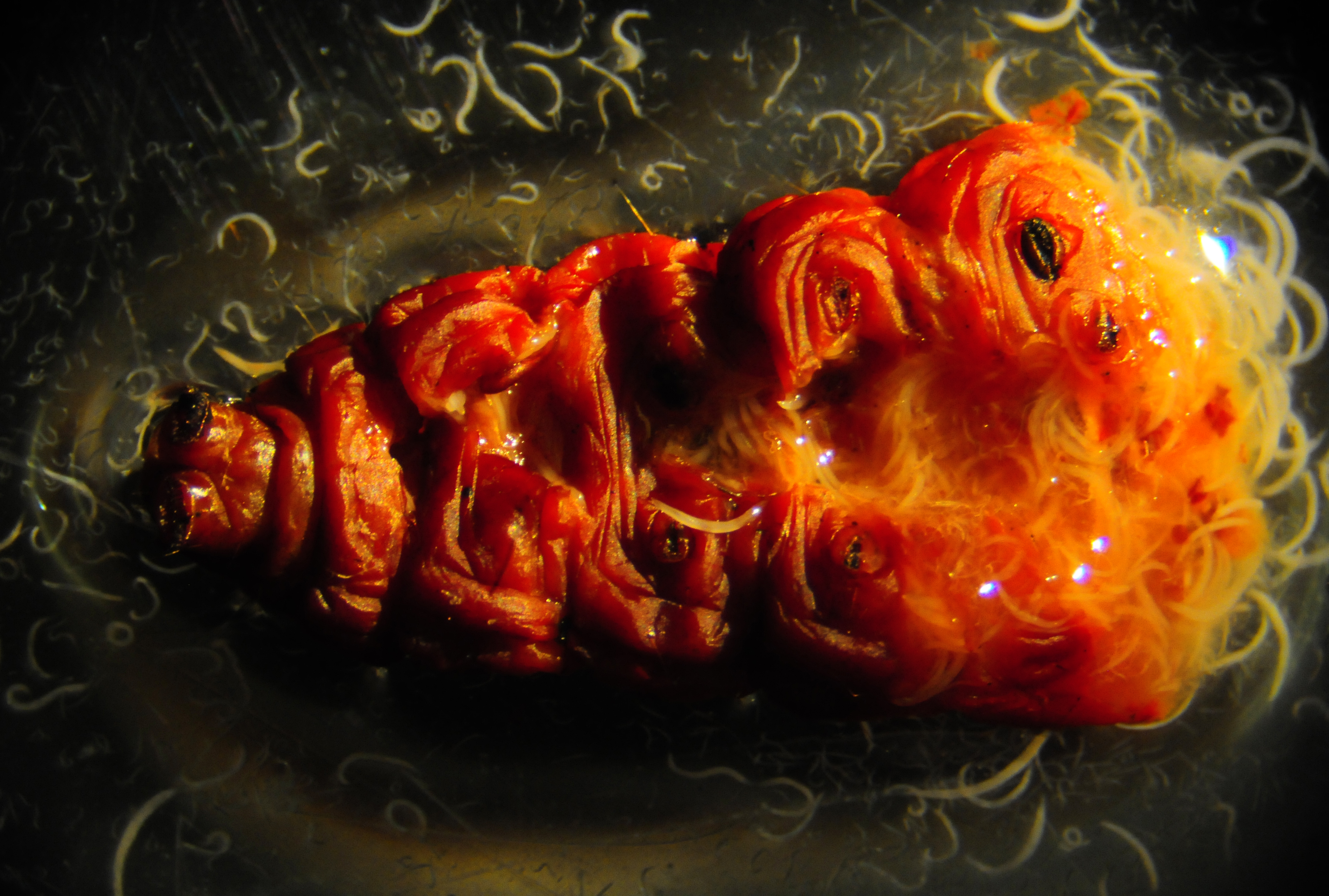 Nematodes on Galleria mellonella. Its a very interesting symbiotic relationship between the nematode and the associated bacteria which is carried within the nematode. The nematode enters the insect, releases the bacteria which produces an antibacterial compound within the insect, killing all other bacterial species except for itself(its resistant). With no competition, the bacteria explodes in population, feeding on the insect. The Nematodes feed exclusively on this bacteria, which also has a large increase in numbers